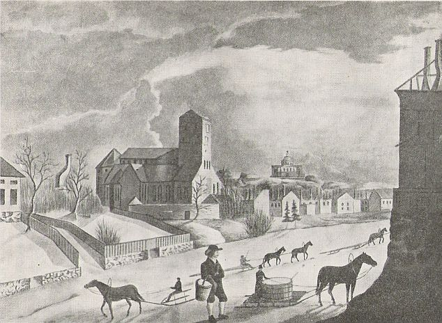 Turku in winter 1827 after the great fire that almost destroyed the entire city